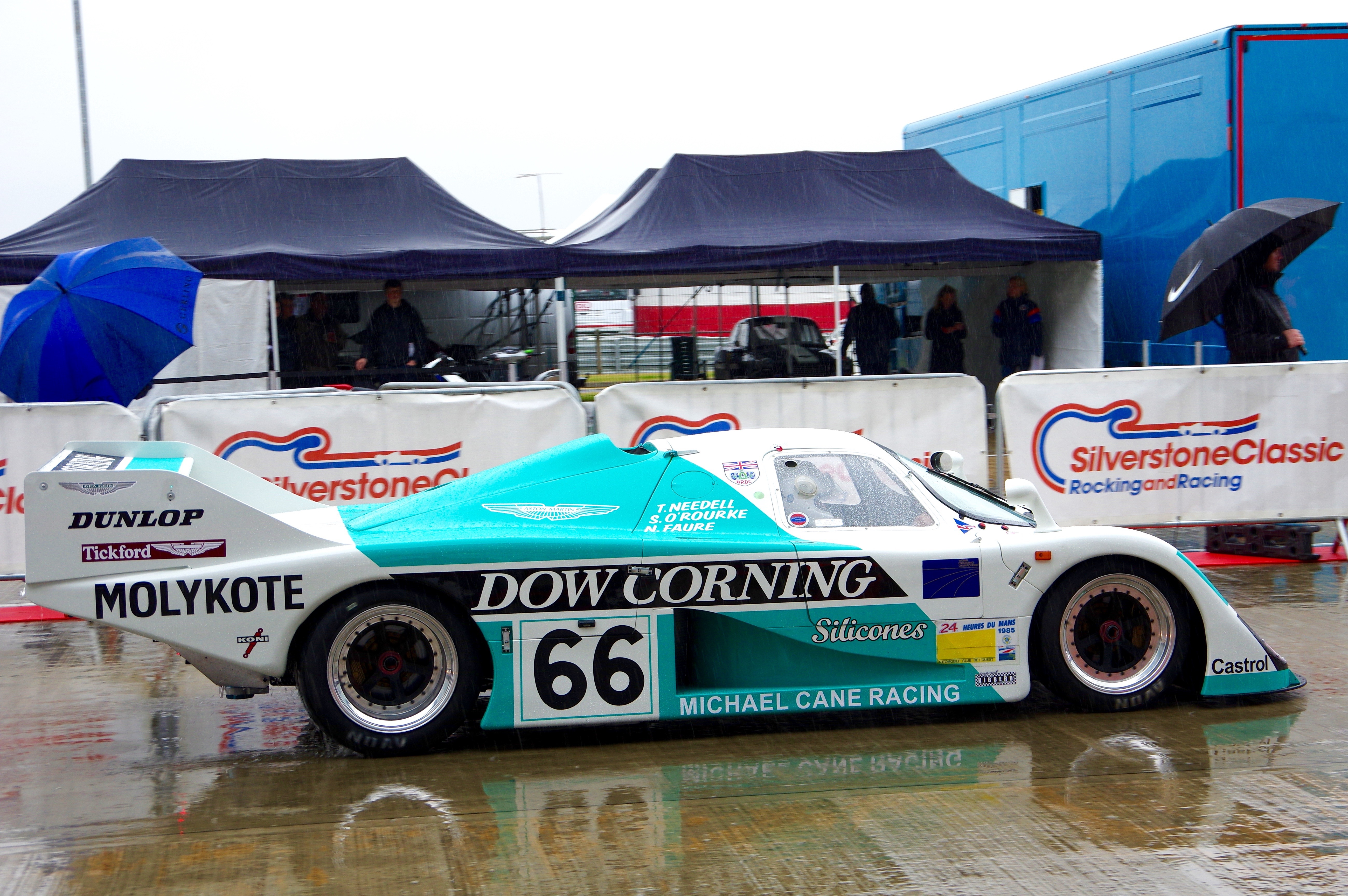 Silverstone Classic 2015